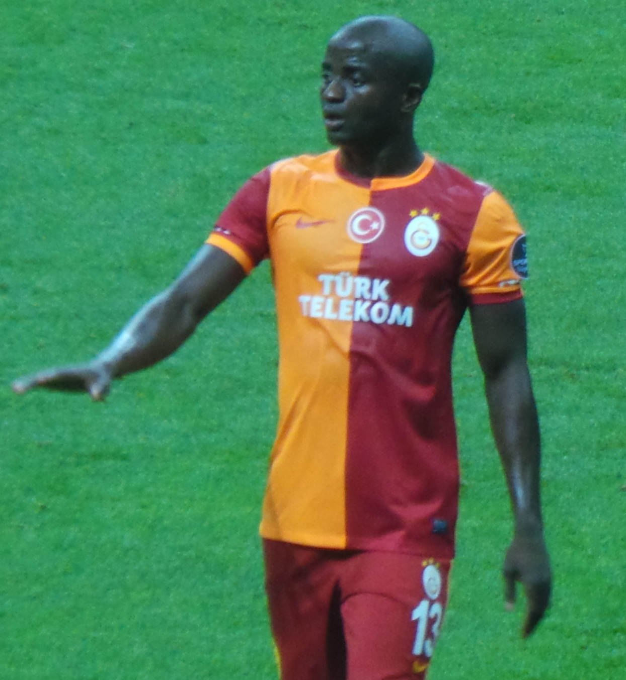 Dany Nounkeu'13